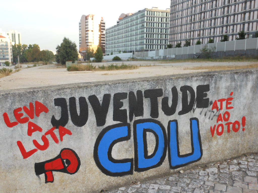 Political Graffiti Methinks